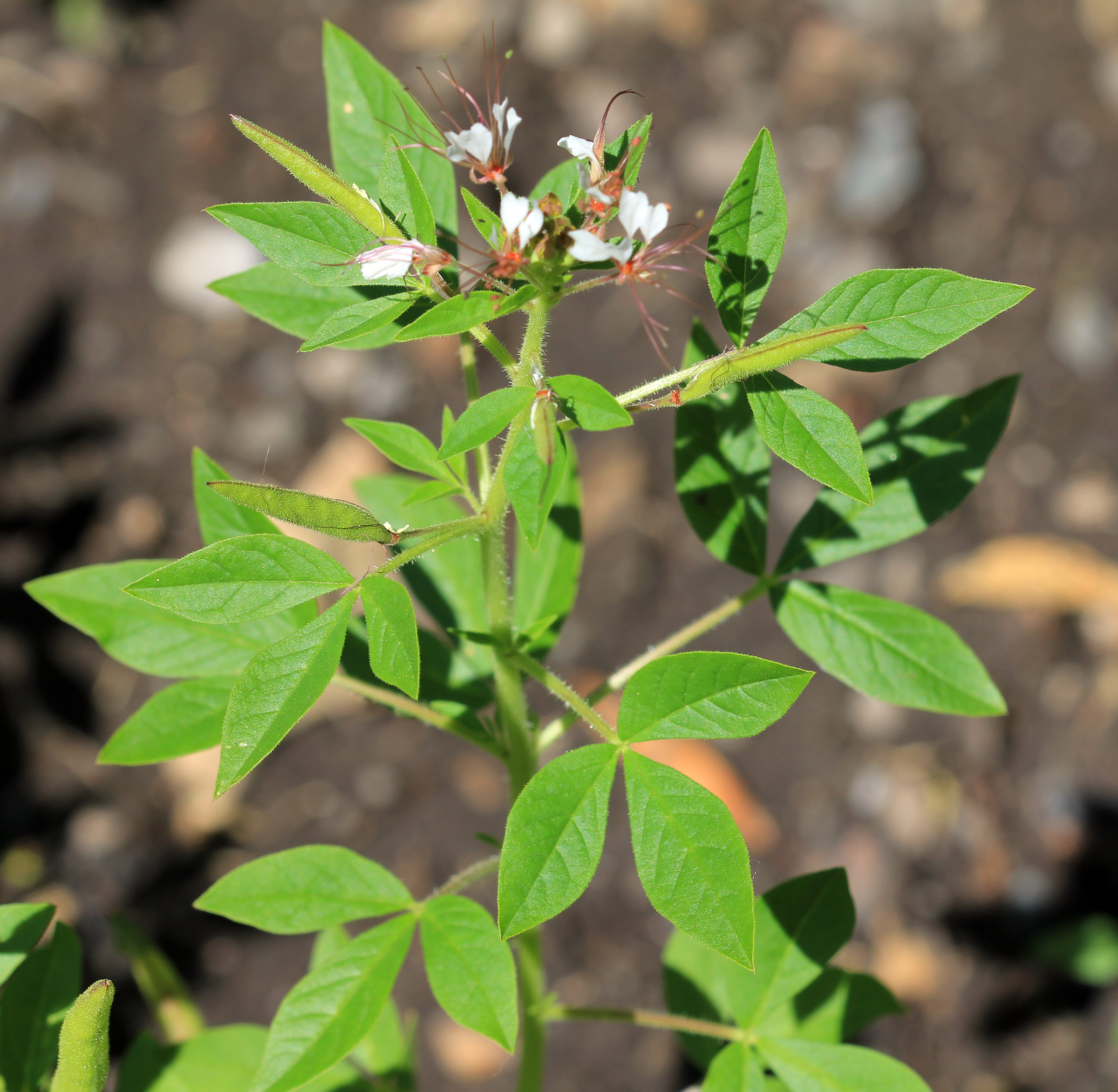 Detail of plant Polanisia trachysperma from the Botanical Gardens of Charles University, Prague, Czech Republic